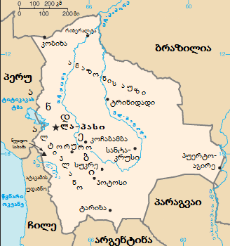 maf of Bolivia in georgian